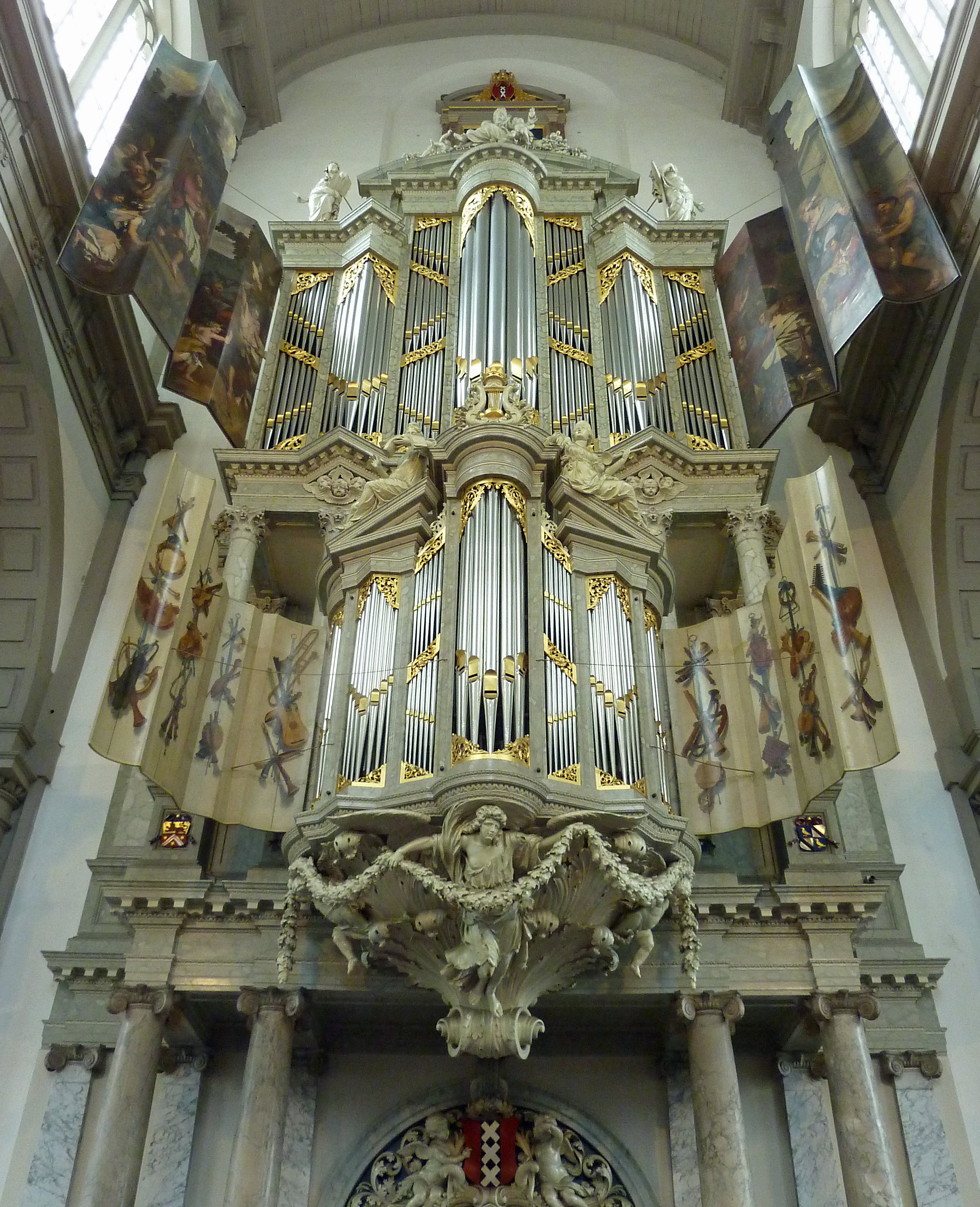 Organ in the Westerkerk Amsterdam